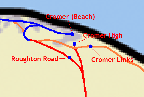 Former layout of railway lines in Cromer, England